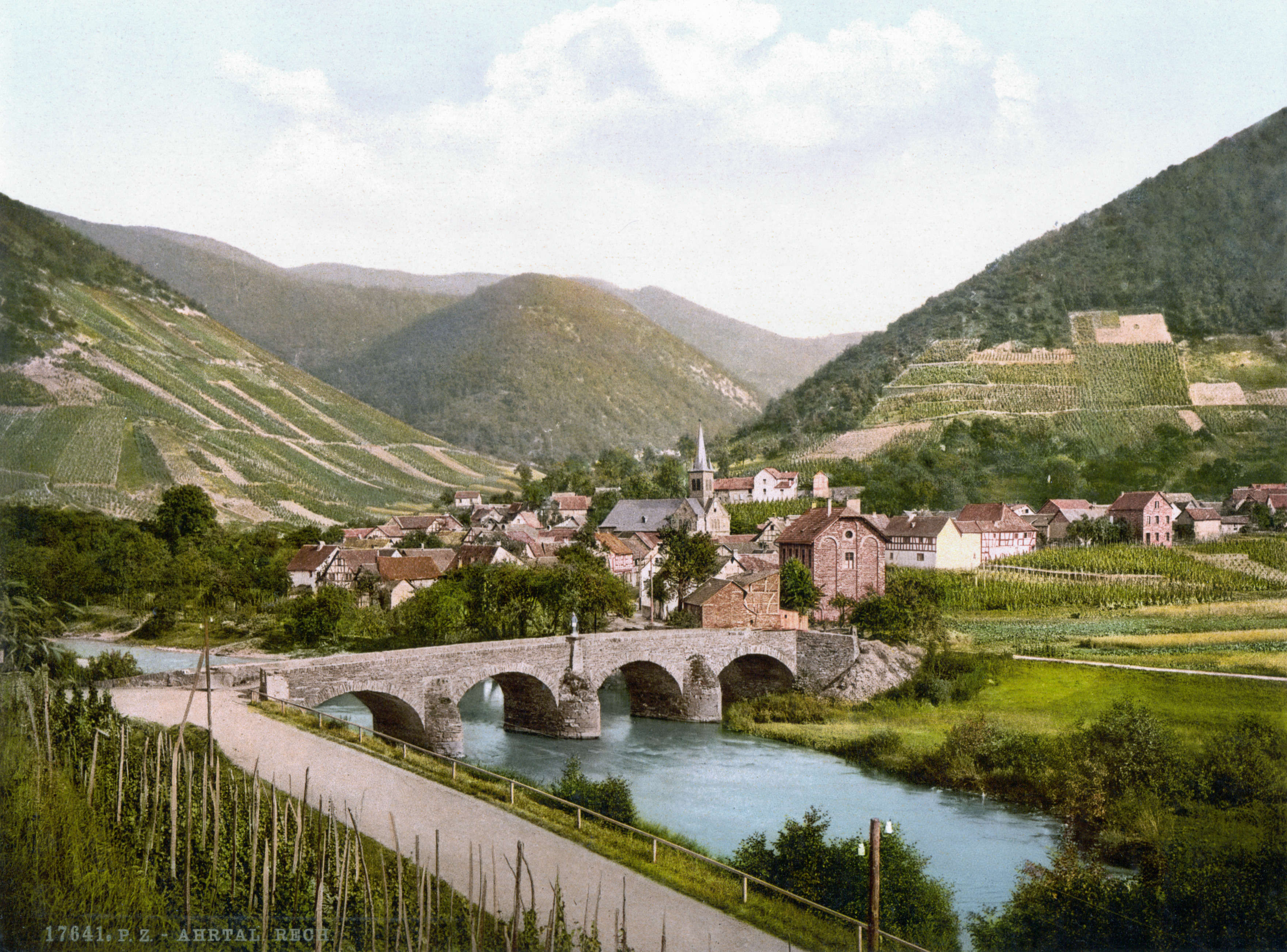 Rech, Germany (about 1900)